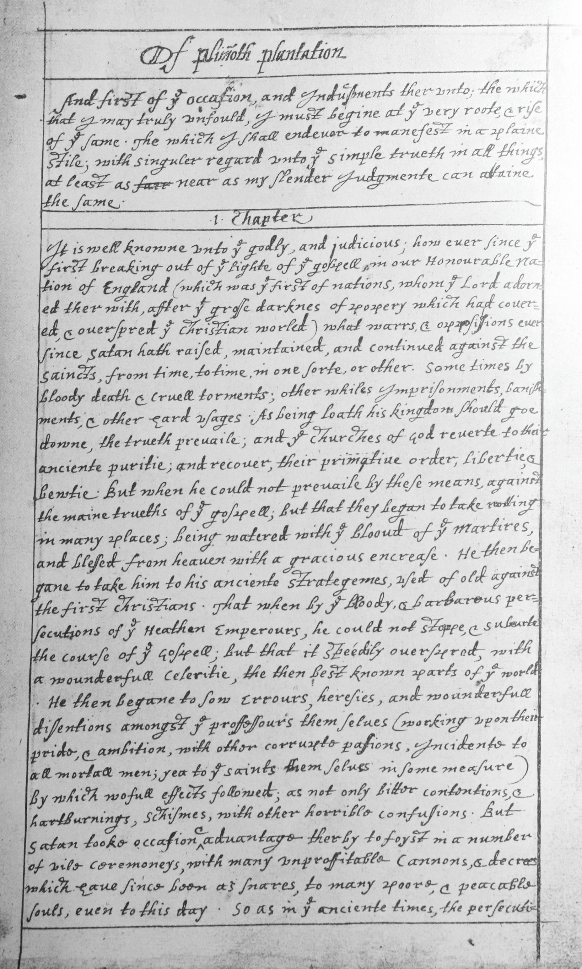 First page of "Of Plimoth Plantation" from 1900 publication. Probably is older image from when page was in better condition than other Wikimedia Commons image.